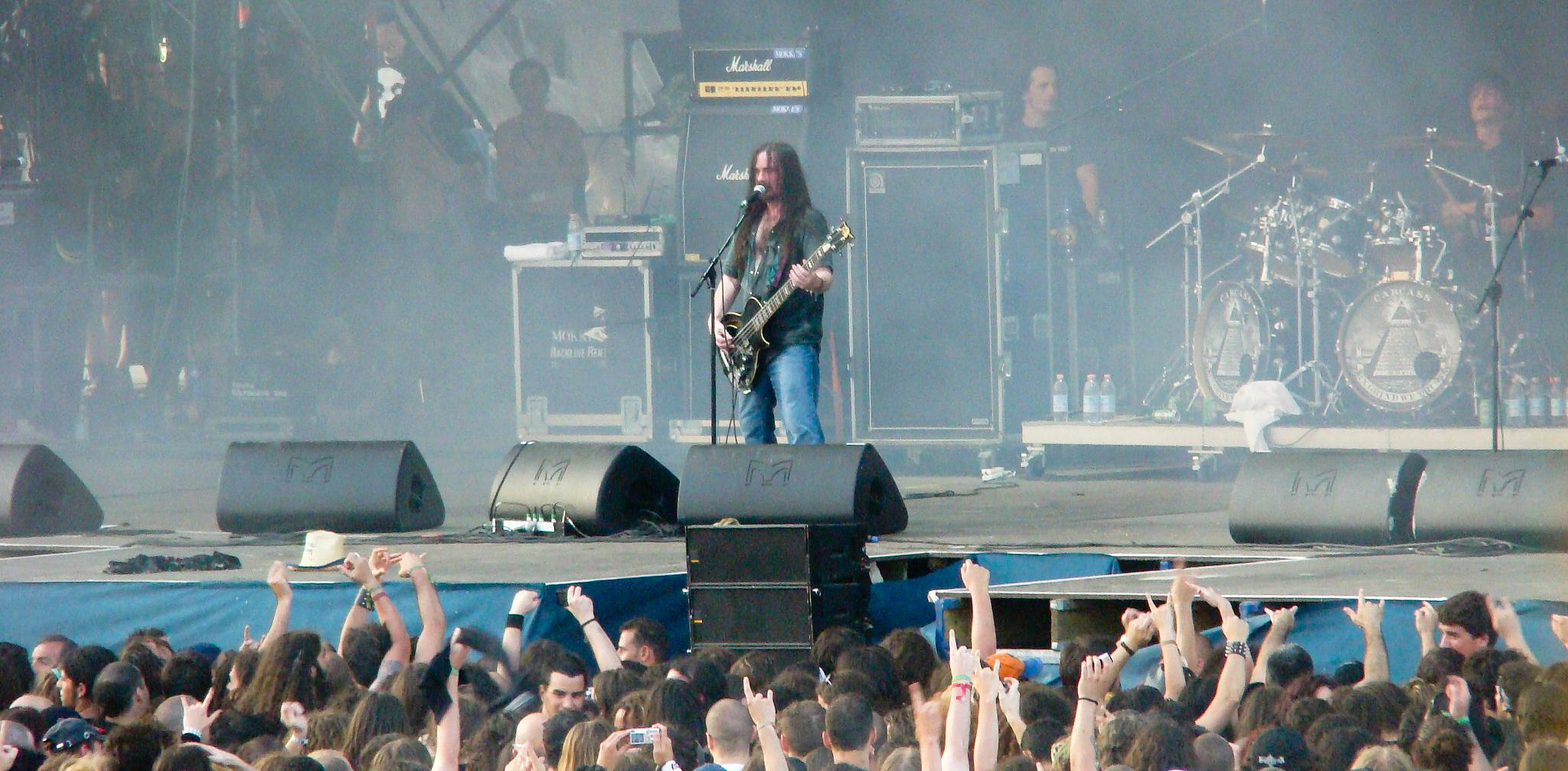 Billy Steer and Daniel Erlandsson. june 29,2008.